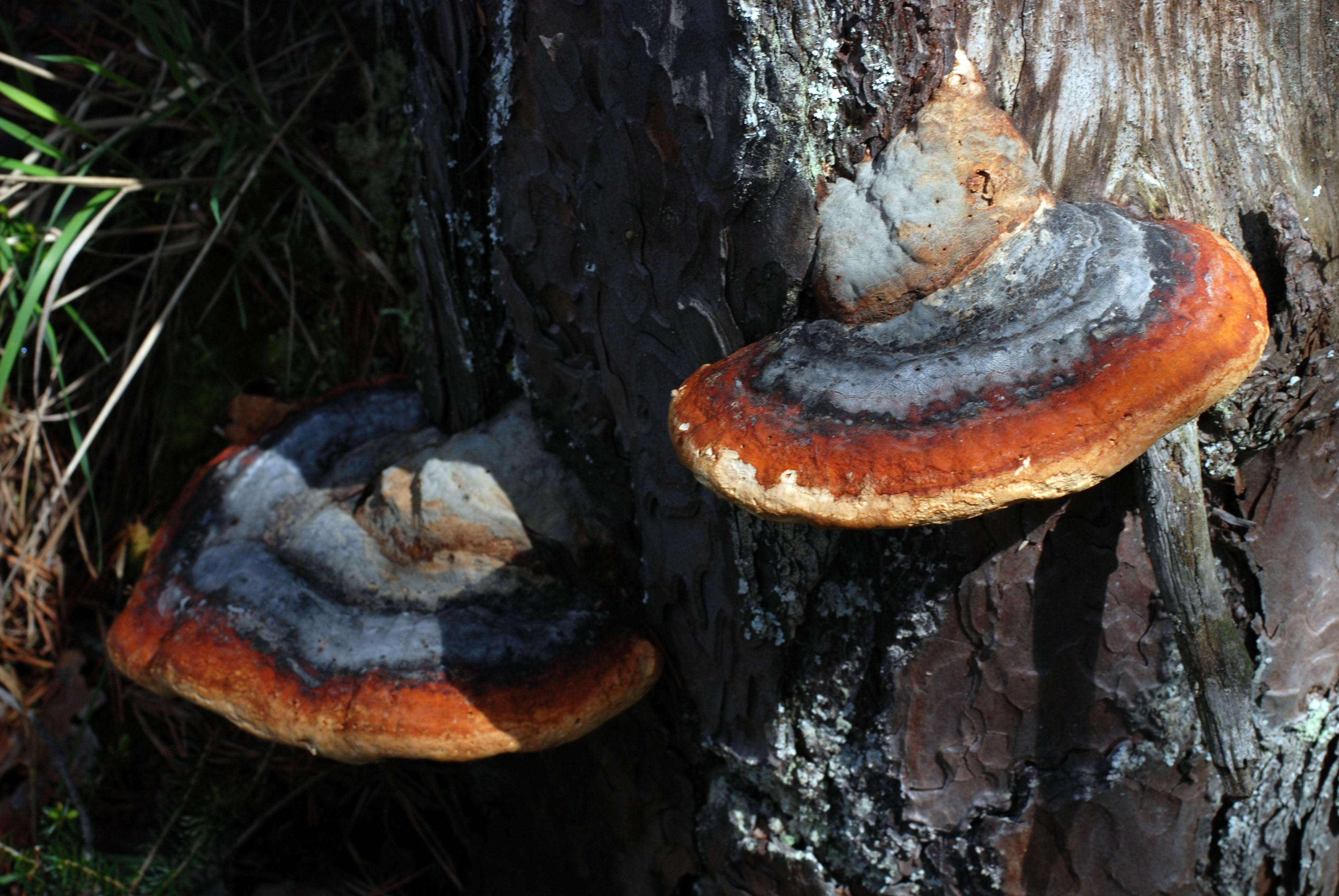 'Fomitopsis pinicola on Pinus sylvestris, Windischgarsten, Austria